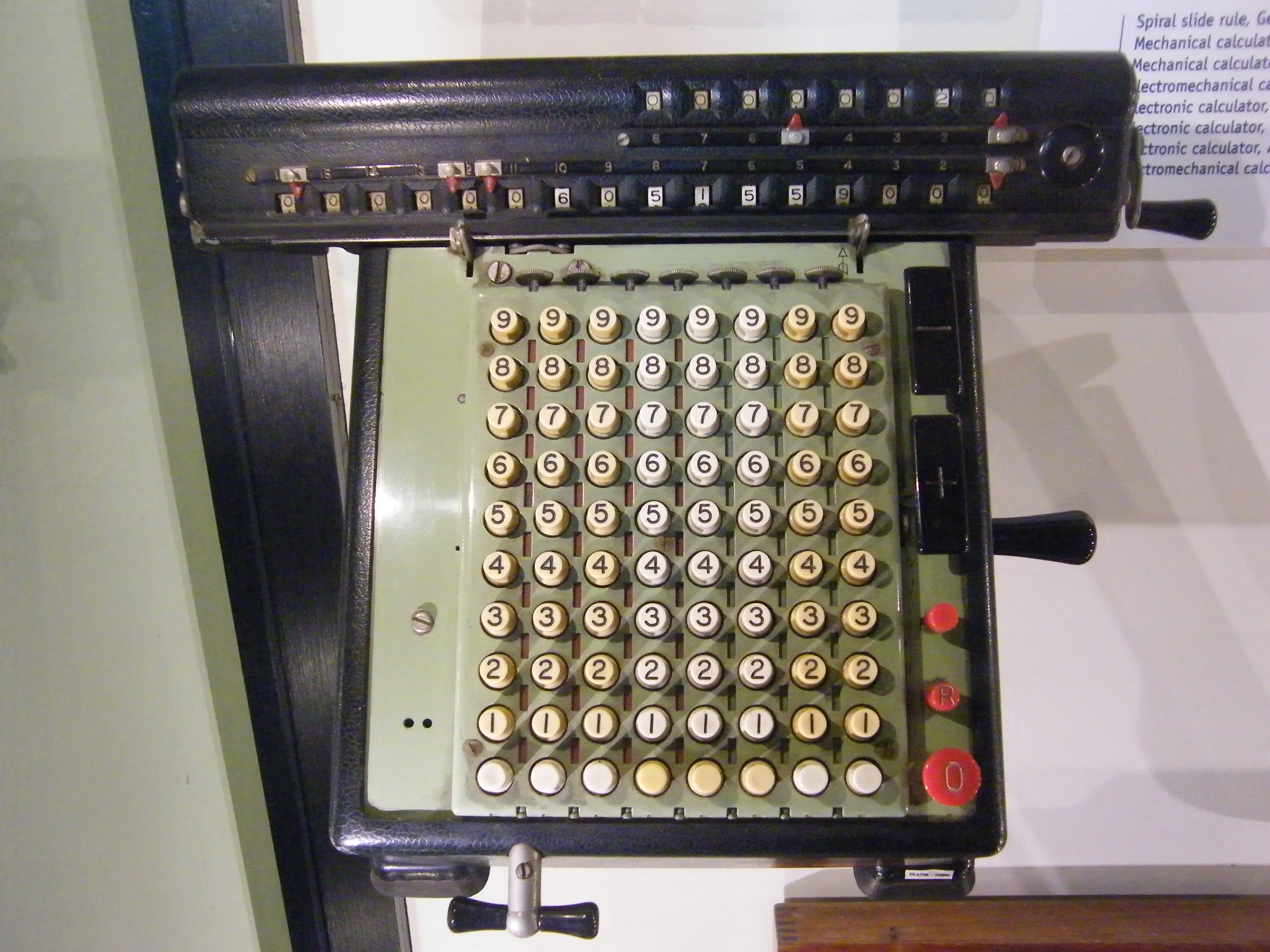 Mechanical Calculator This photo was taken as part of Britain Loves Wikipedia in February 2010 by Dave Russ.